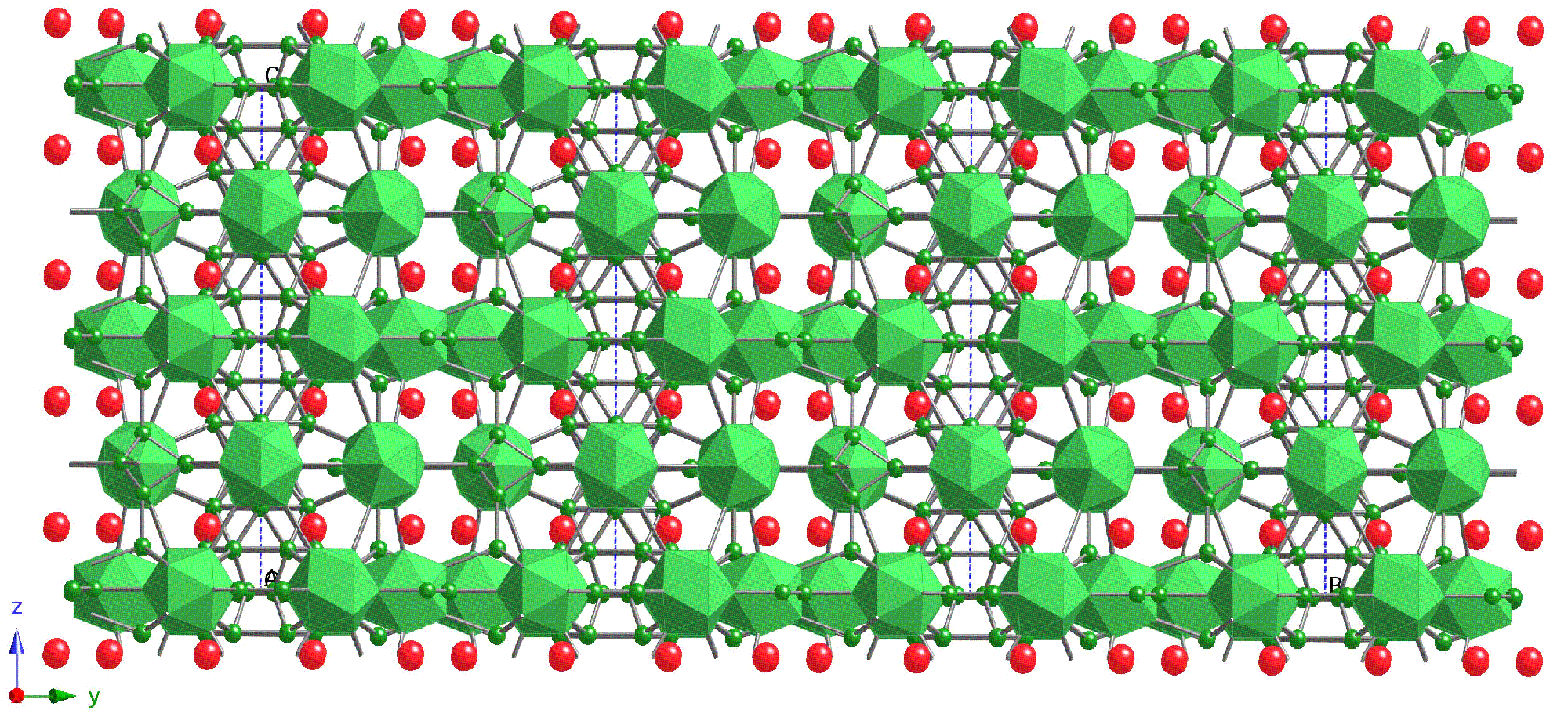 ScB17C0.25 crystal structure viewed along the a-axis. The icosahedron layers alternatively stack along the c-axis in the order I1-I2-I1-I2-I1.